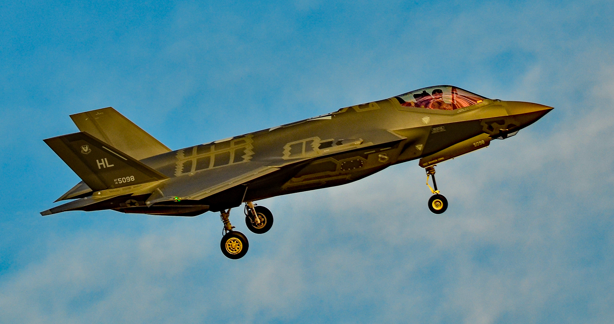 34th Fighter Squadron is part of the United States Air Force′s 388th Fighter Wing at Hill Air Force Base, Utah. Red Flag 17-1: Jan. 23 to Feb. 10, 2017 Las Vegas - Nellis AFB (LSV / KLSV) USA - Nevada, February 7, 2017 Photo: TDelCoro